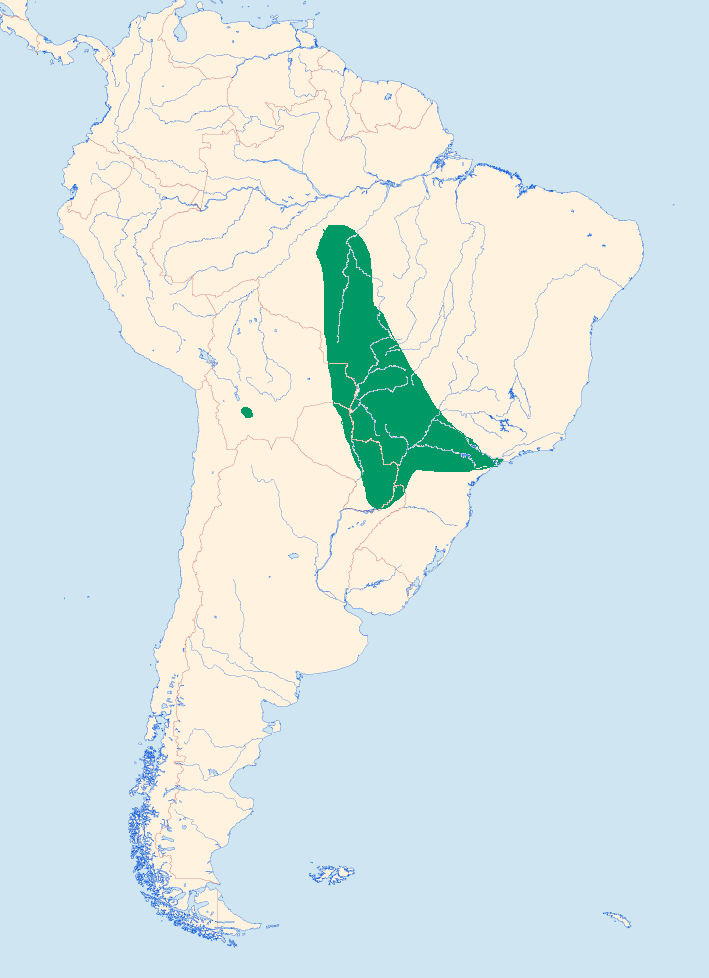 Distribution of Great Dusky Swift (Cypseloides senex)